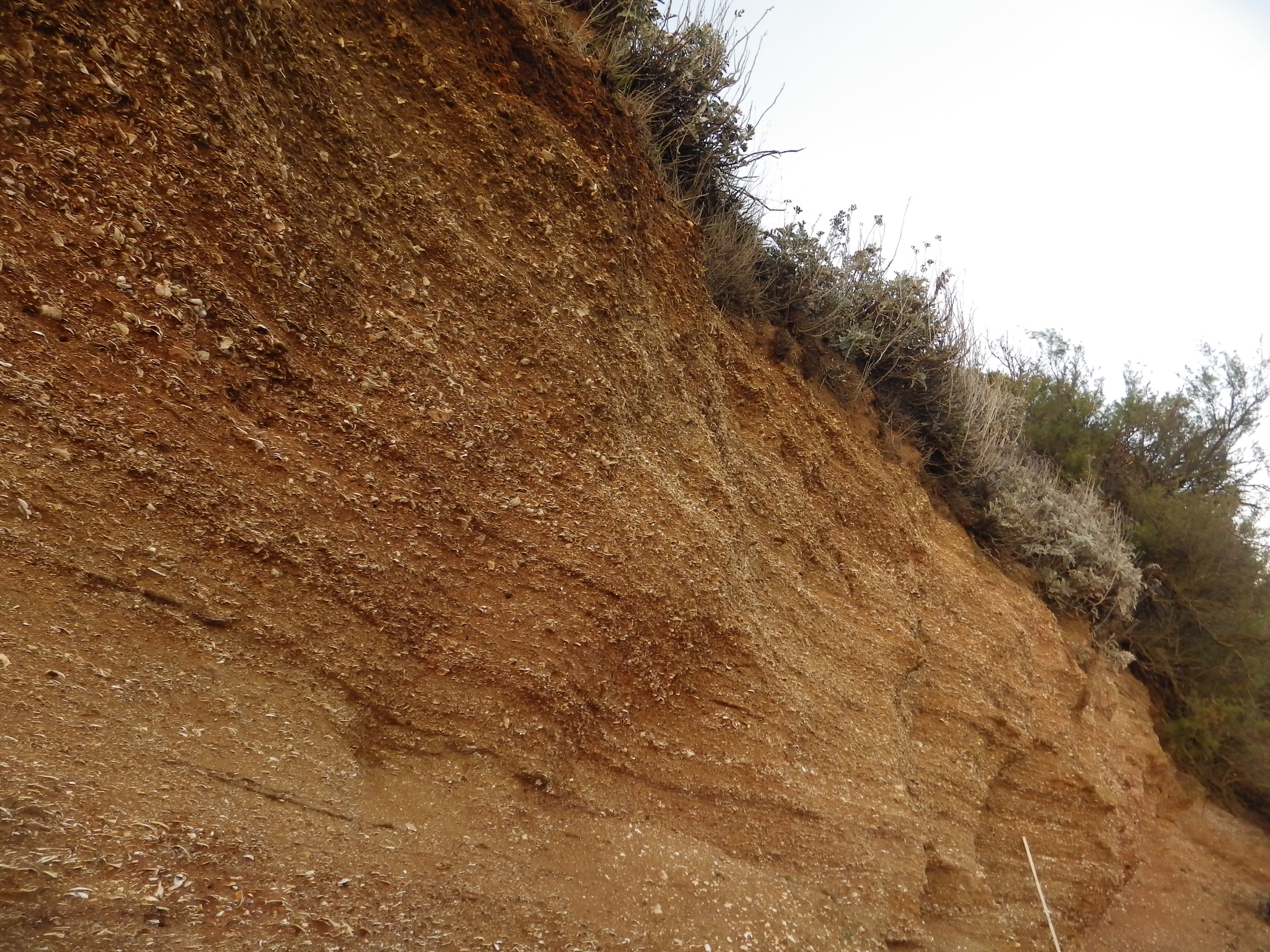 View of Red Crag strata in cliff at Bawdsey Cliff. The site is designated a Site of Special Scientific Interest for its geology.